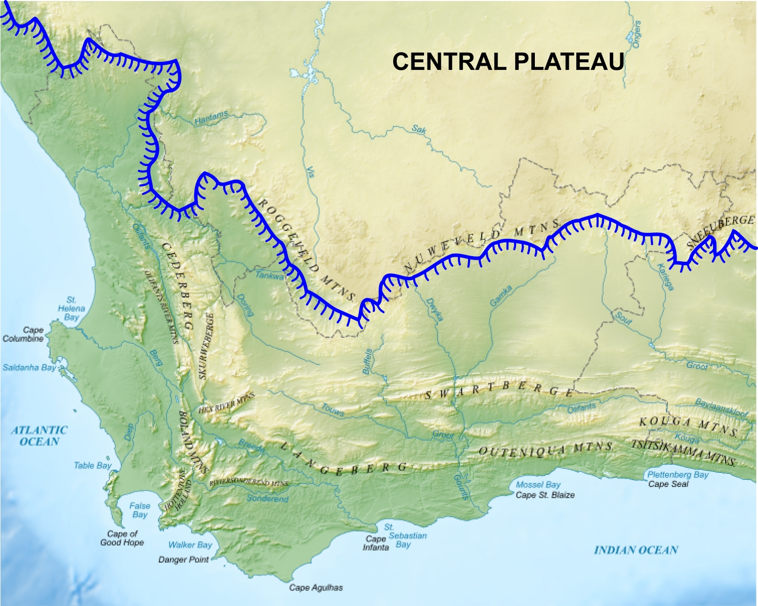 A modified version of User:Htonl's map on Wikimedia Commons indicating the course of the Great Escarpment with the blue line